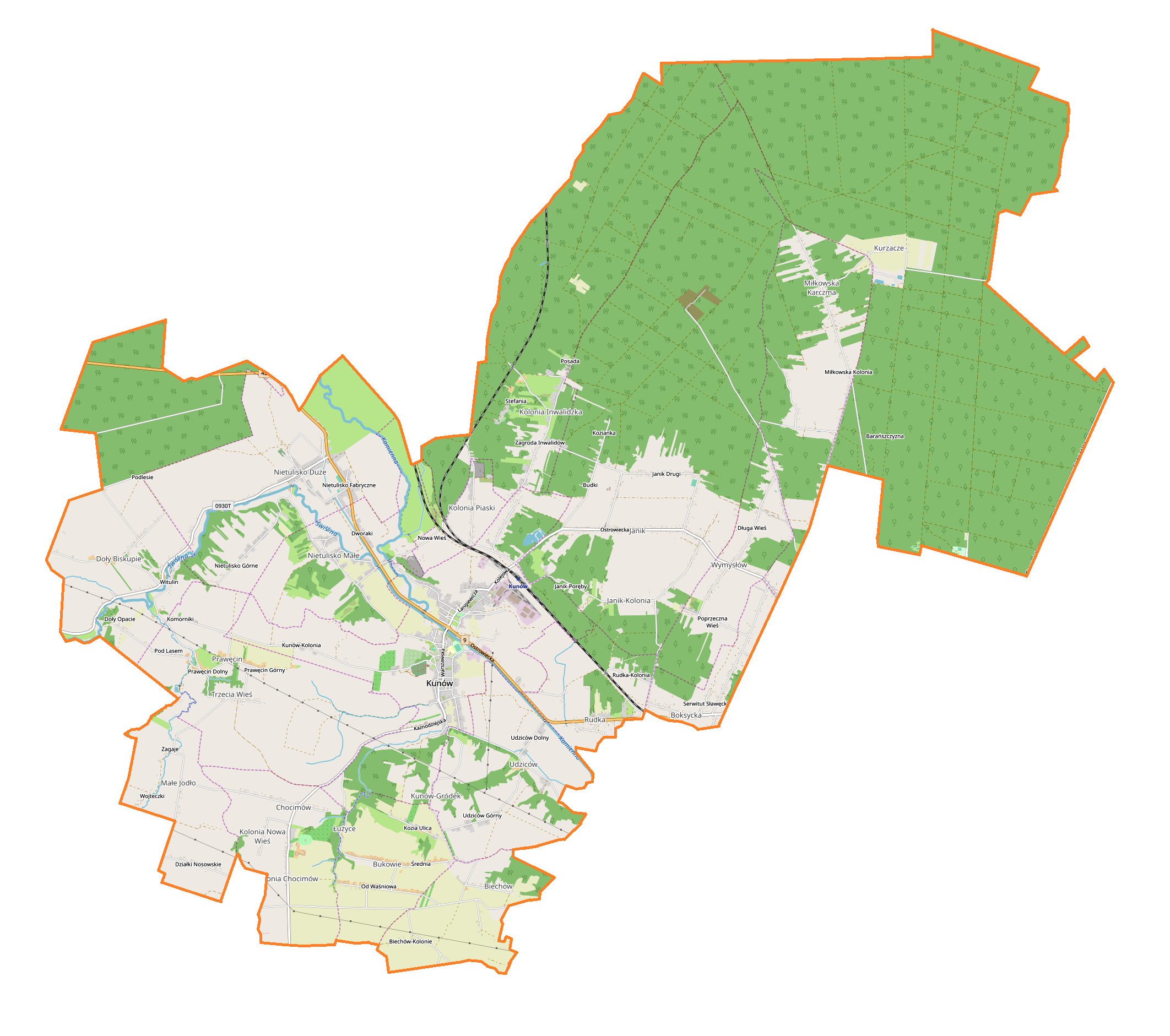 Location map